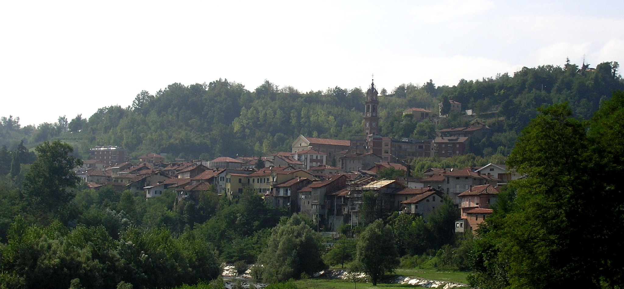 Landscape of San Michele Mondovì (Italy)